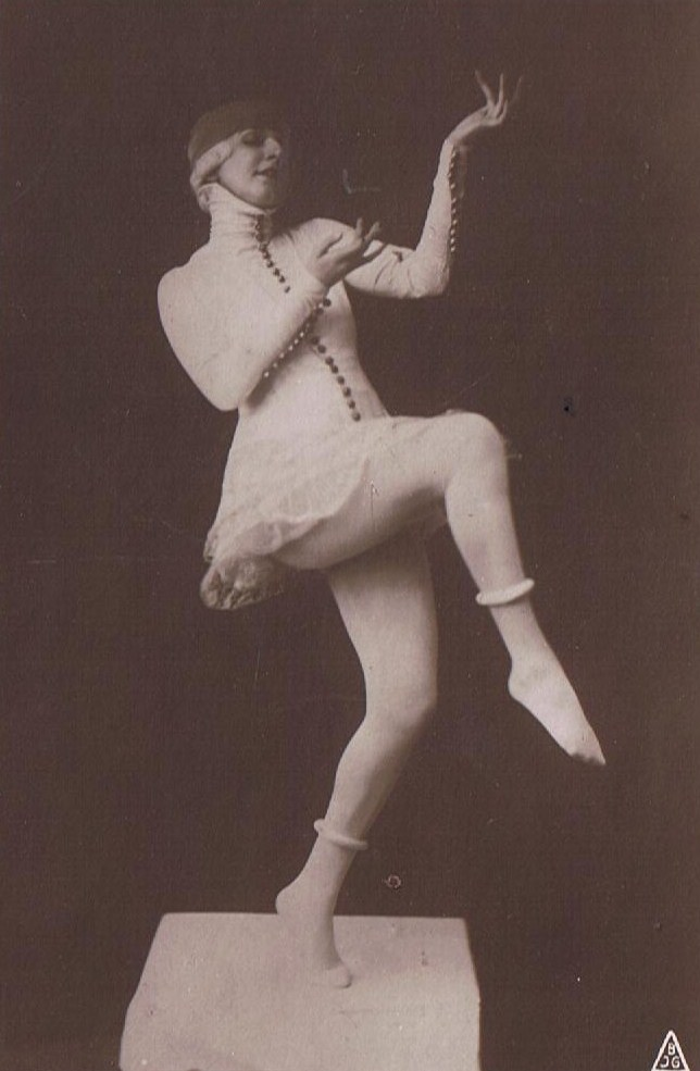 Ora Doelk performing Porzellan